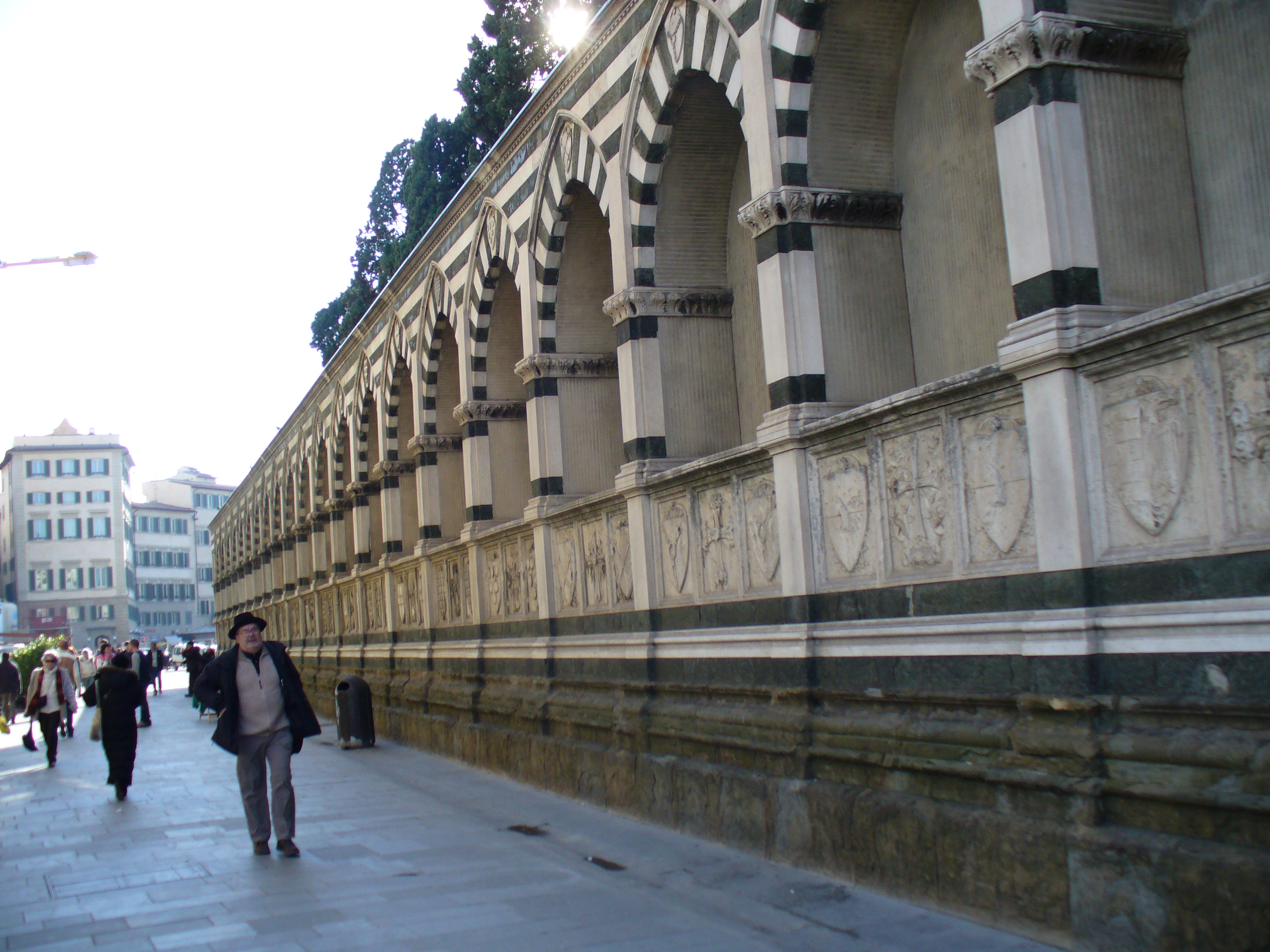 Via degli Avelli